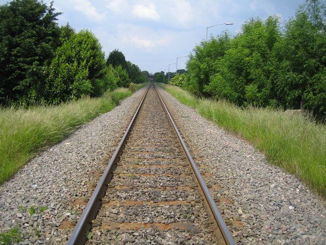 Aylesbury to Princes Risborough railwayViewed looking towards Aylesbury from the Mandeville Road pedestrian crossing, this is the opposite view to 184697 The 1884 Ordnance Survey map shows how the railway cut through the original road to Stoke Mandeville from Aylesbury at this location and why the diversion route of the current road had to be constructed to the east of the railway, beyond the bushes to the right. This is the site of the long since closed South Aylesbury Halt, as shown on the 1940s Ordnance Survey mapping.